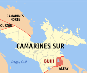 Map of Camarines Sur showing the location of Buhi